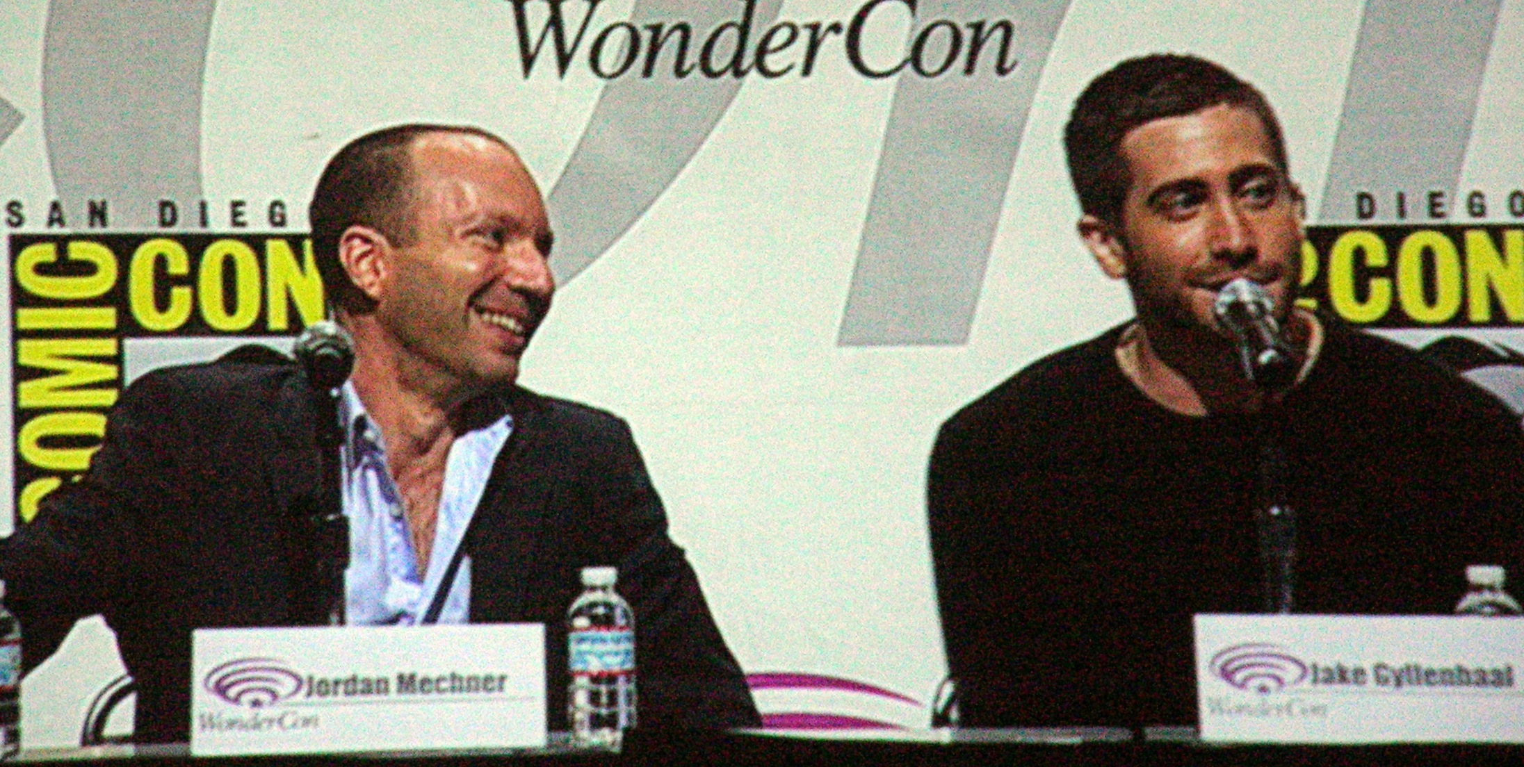 Jordan Mechner, the creator of Prince of Persia and actor Jake Gyllenhaal, who portrays Prince Dastan in the Prince of Persia: The Sands of Time, at a panel promoting the film at WonderCon 2010.